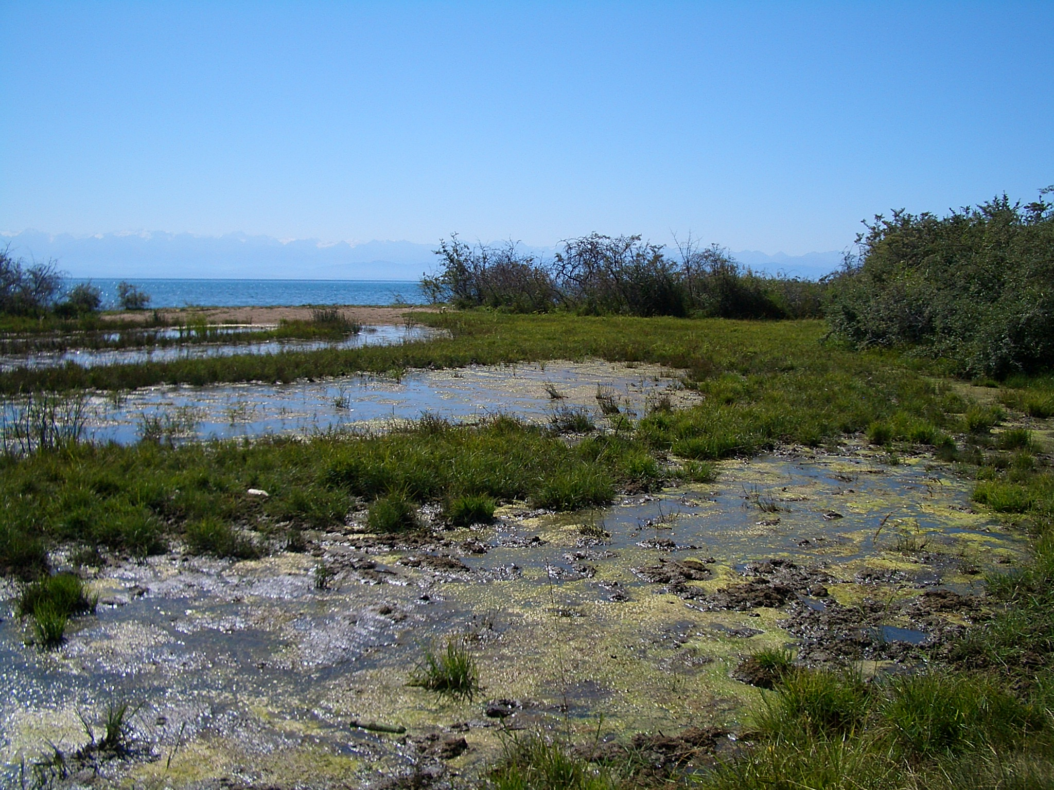 A wetland along the shore of Issyk Kul, on the Tamchy Bay between Tamchy and Kosh Köl, Kyrgyzstan.